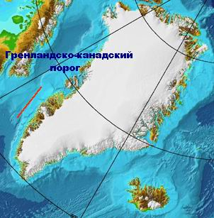 Canada Greenland Ridge